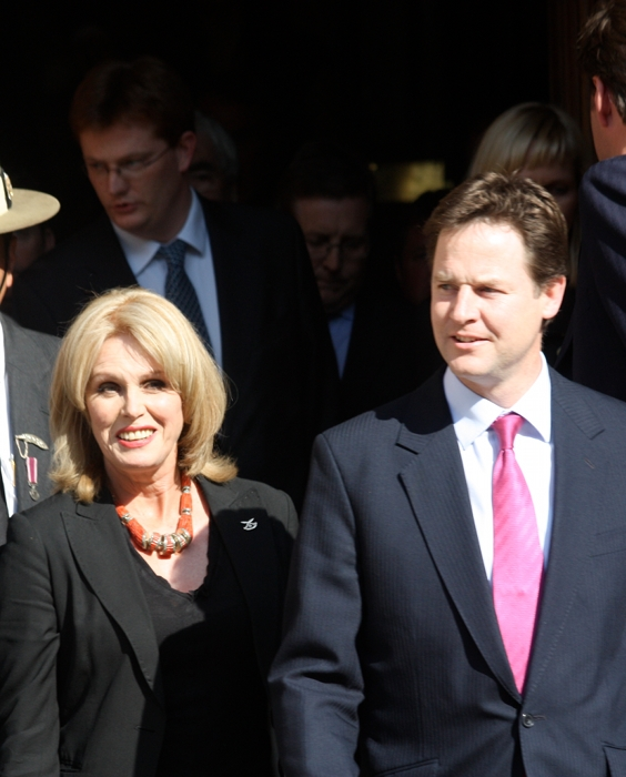 Nick Clegg and Joanna Lumley